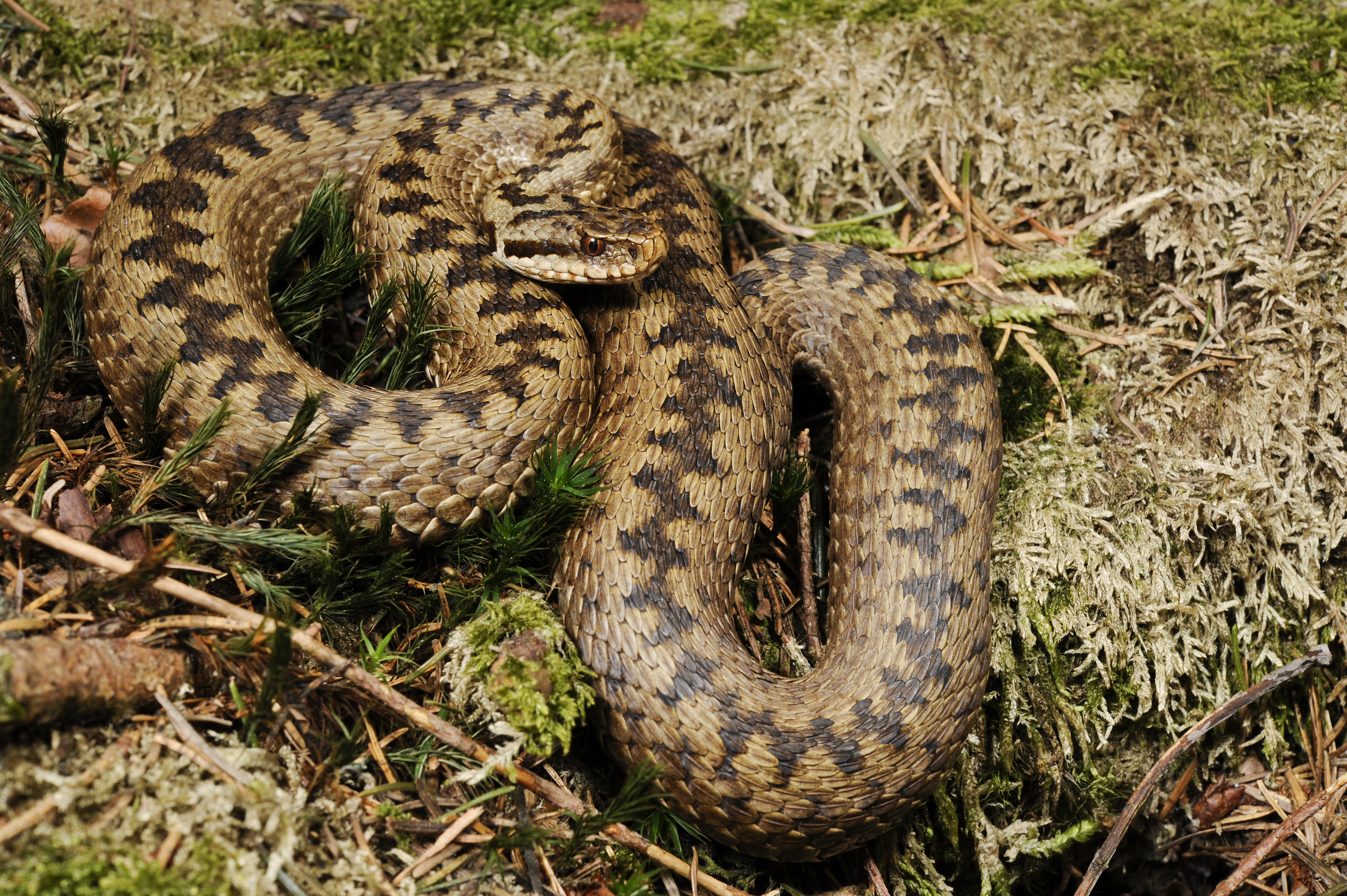 Vipera berus